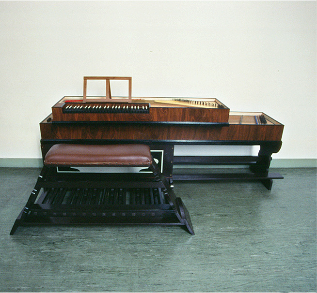 A Pedalclavichord 18th century.